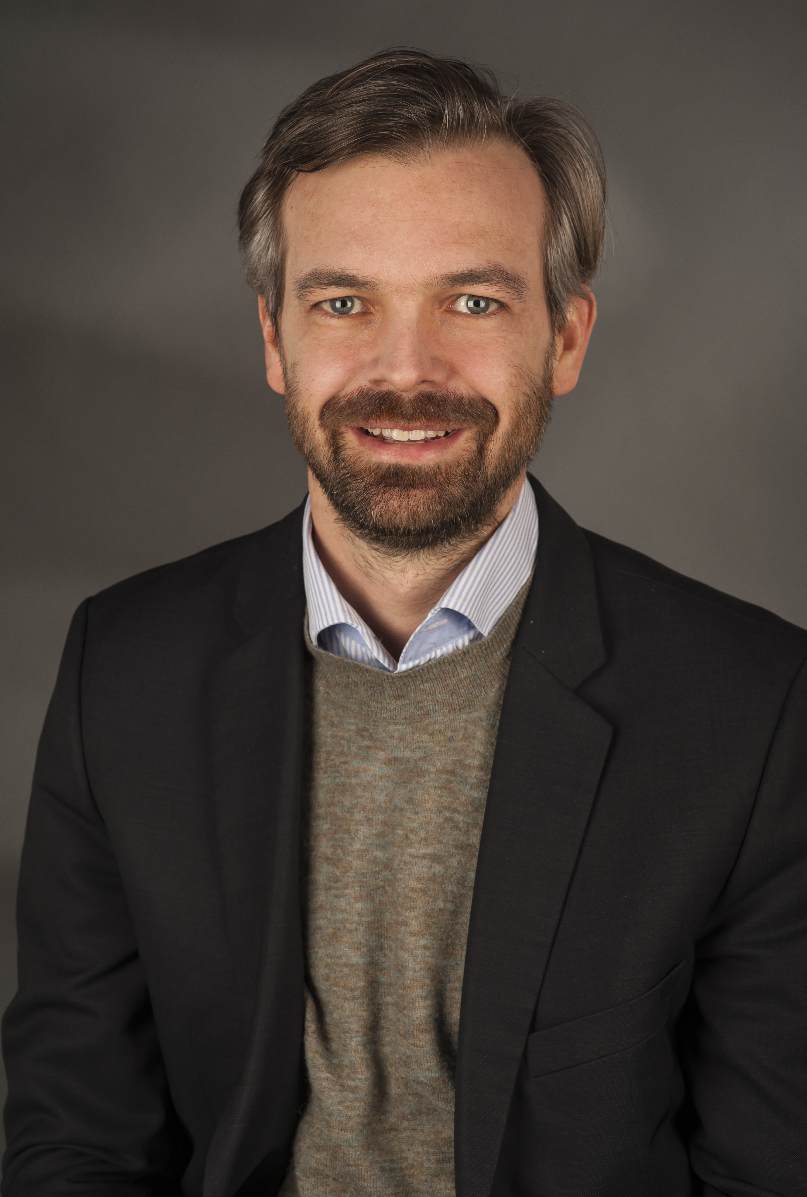 Martin Ehrenhauser, Member of the European Parliament from Austria.